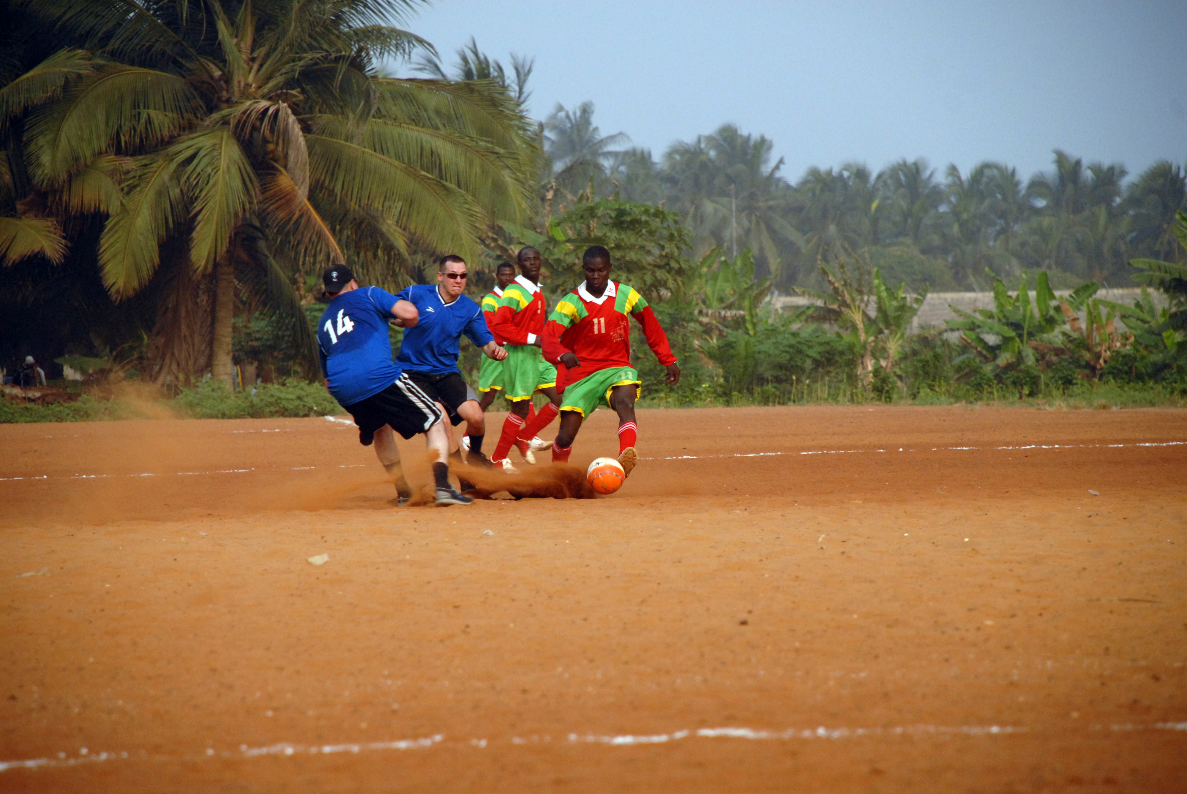 LOME, Togo (Jan. 28, 2008) Sailors stationed aboard the high speed vessel (HSV) 2 Swift, in blue, and Togolese 1st Infantry Battalion, in red, battle it out for the ball in a friendly soccer game during the vessel's first port call for Africa Partnership Station (APS). The red team won 4-2. As a part of the Navy's new cooperative maritime strategy, APS is a multi-national effort to bring the latest training and techniques to maritime professionals in nine West and Central African countries through building transparent partnerships. U.S. Navy photo by Mass Communication Specialist 2nd Class Elizabeth Merriam (Released)